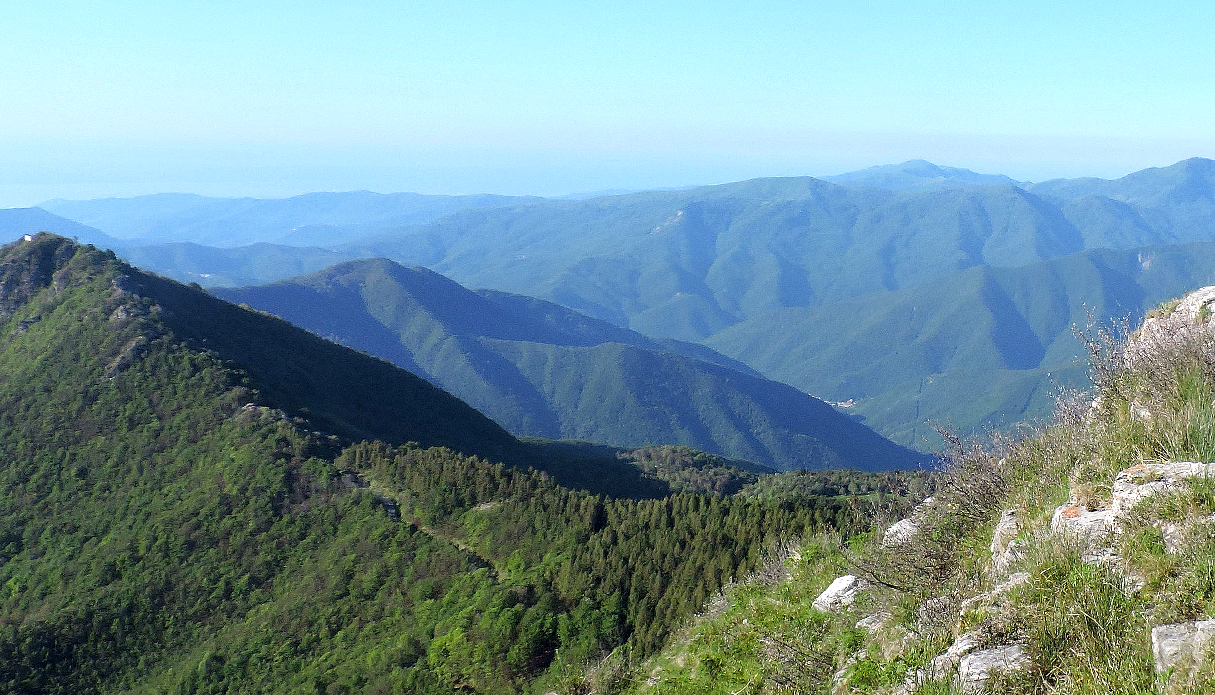 Colle di Caprauna (Prealpi Liguri): view from Monte della Guardia